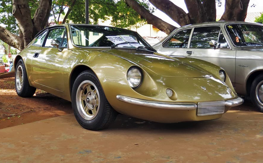 Late seventies' Puma GT coupé. This car seems to have a more modern midsection coupled to the classic front end.